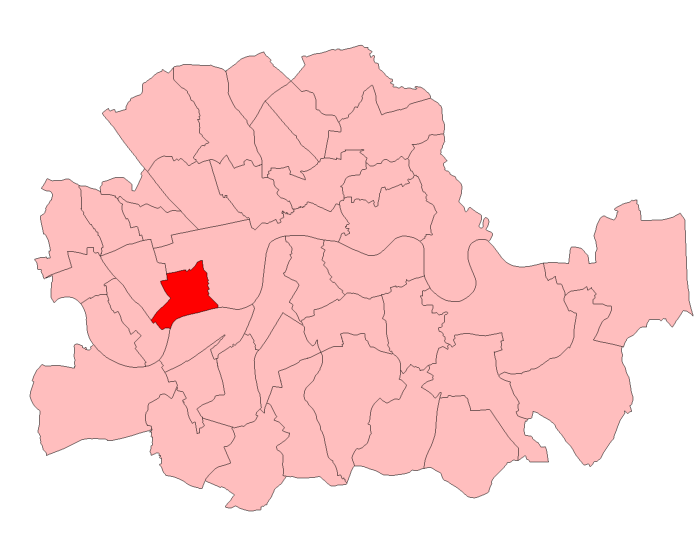 A map of Chelsea constituency within the London County Council area, as it existed from 1950 to 1974.